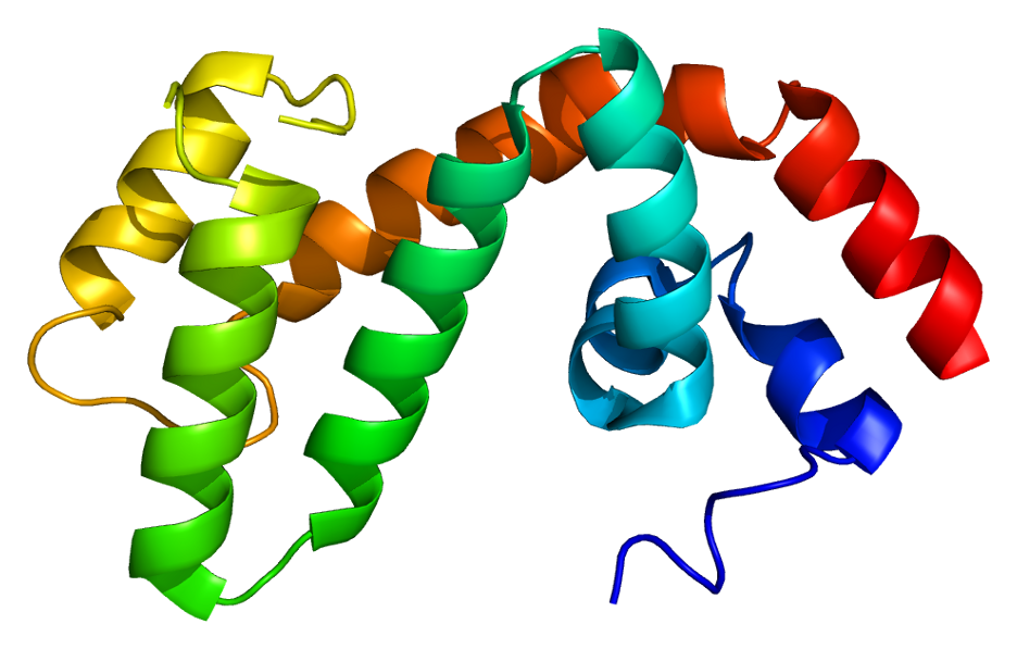 Structure of the RGS17 protein. Based on PyMOL rendering of PDB 1zv4.